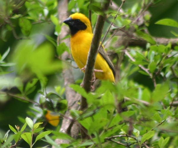 Male Asian Golden Weaver (Ploceus hypoxanthus) at Moeyungyi Wetland Wildlife Sanctuary, Bago, South Myanmar